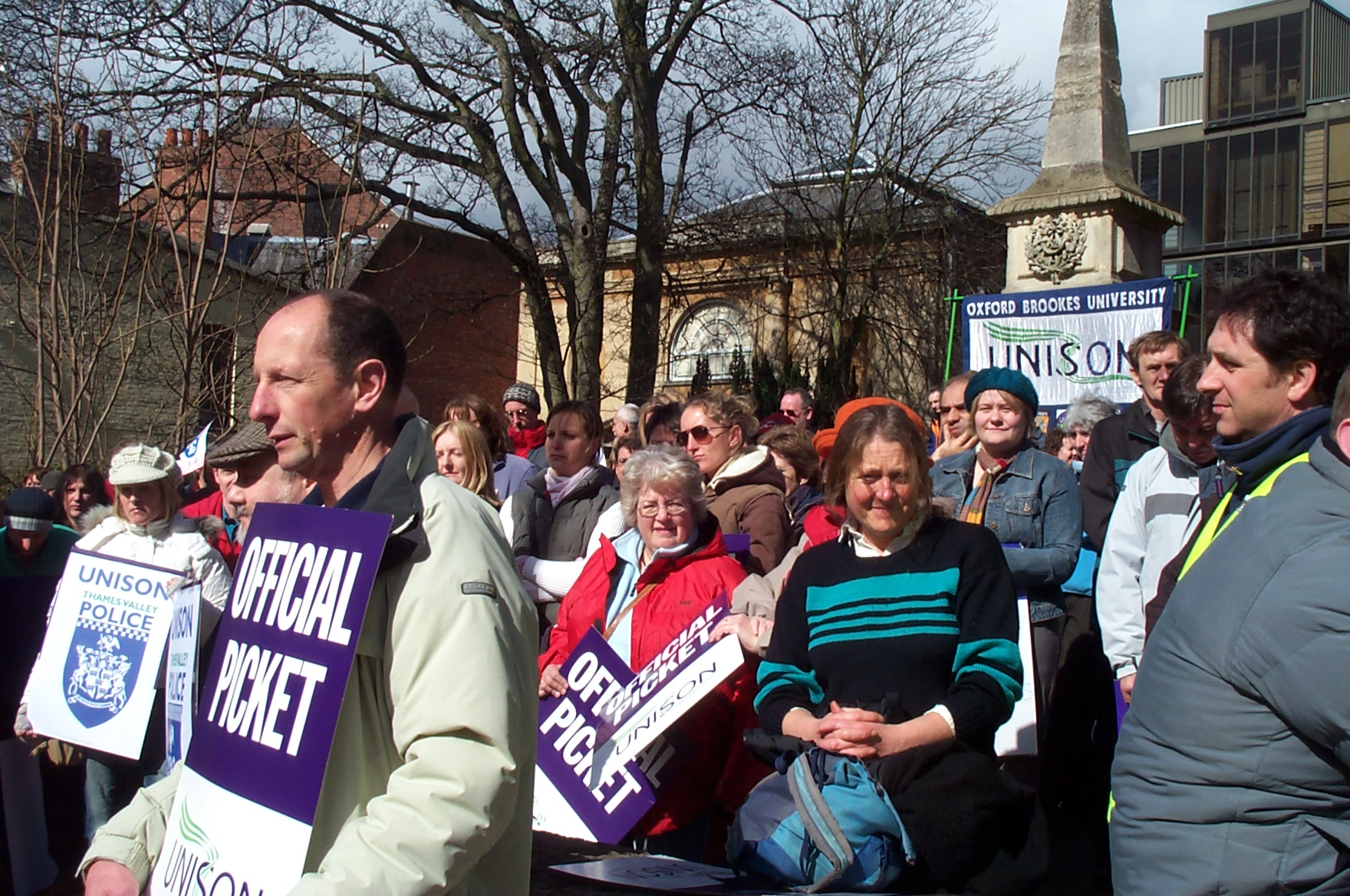 A rally of the trade union UNISON in Oxford during a strike (industrial action), 2006-03-28. Copyright © 2006 Kaihsu Tai